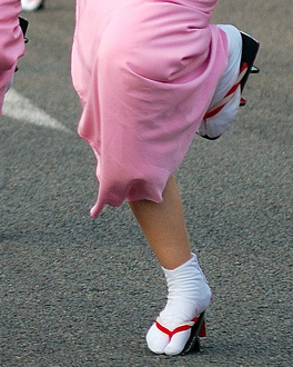 Awa Odori in Tokushima, Japan [2008].